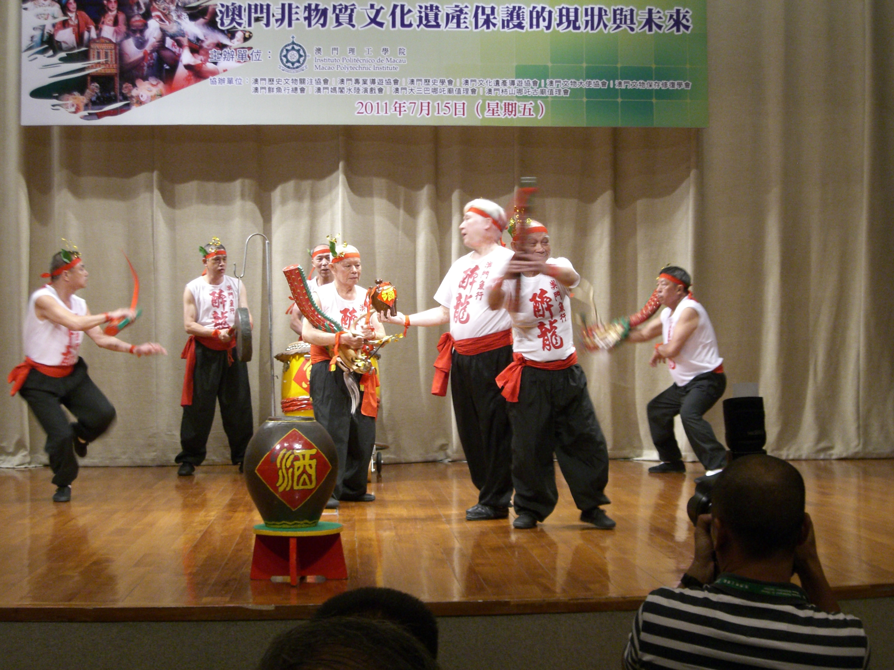 Drunken Dragon Dance